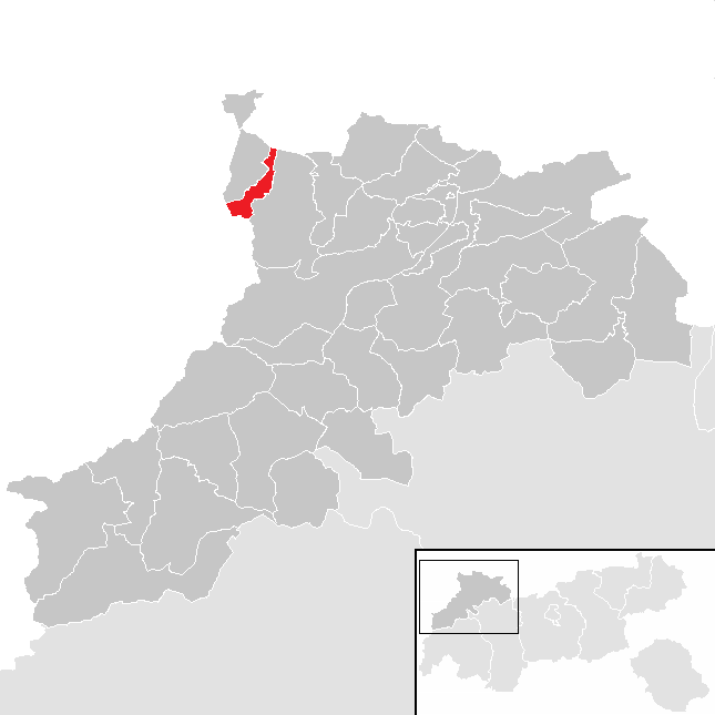 District Reutte